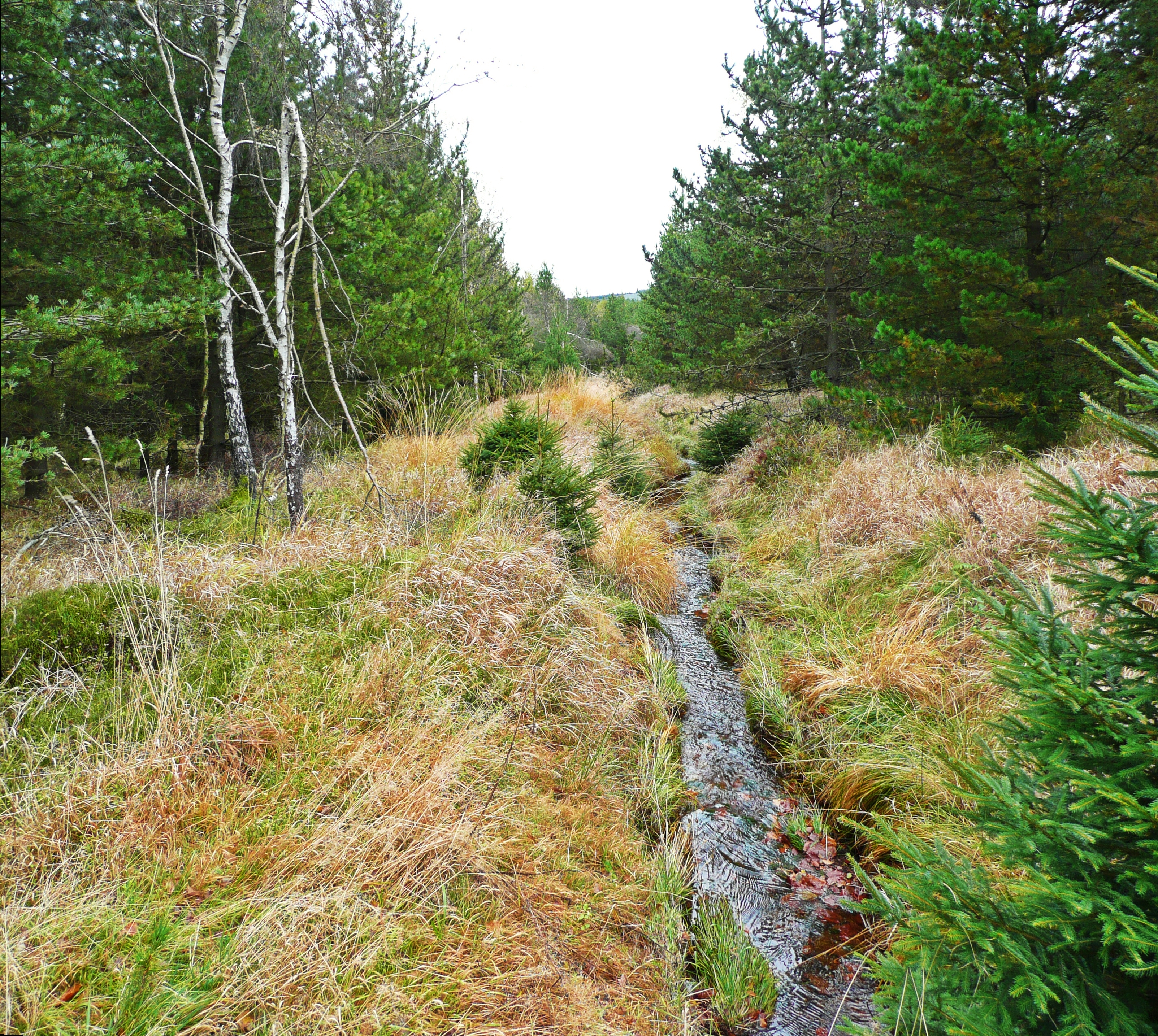 This image shows the Neugraben near Altenberg in the Ore Mountains. The Neugraben was built ~ 1550 to convey water to the tin mines in Altenberg.